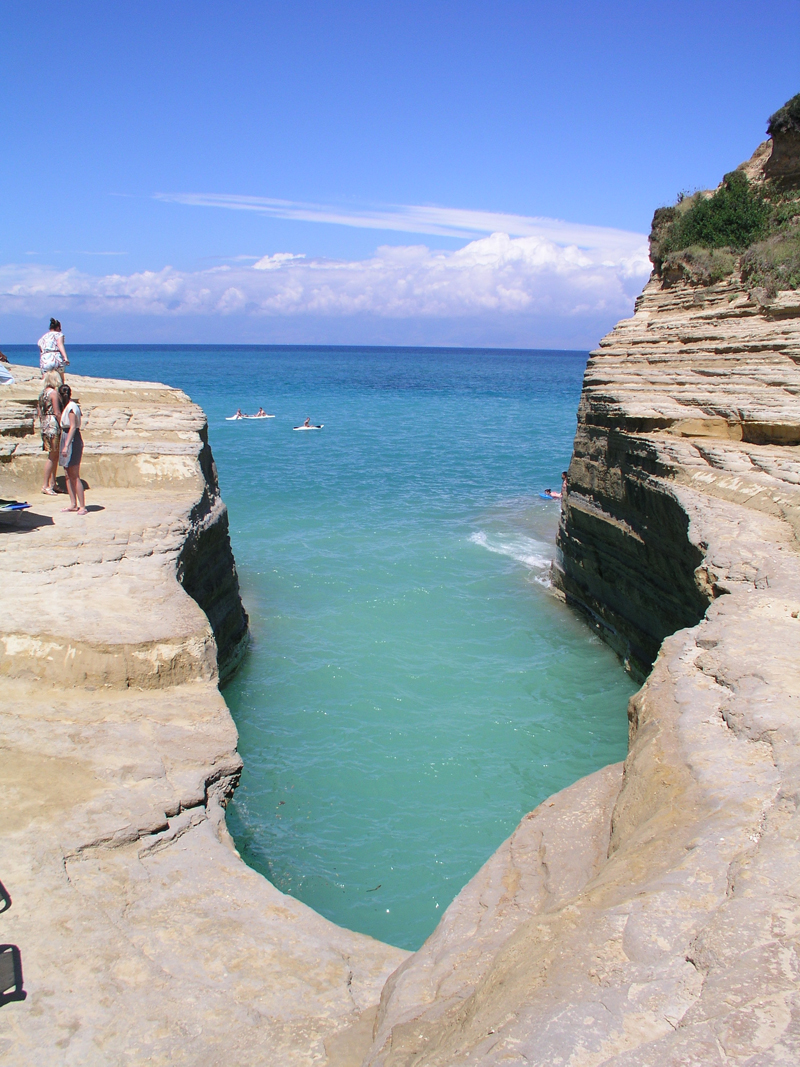 taken in July of 2014